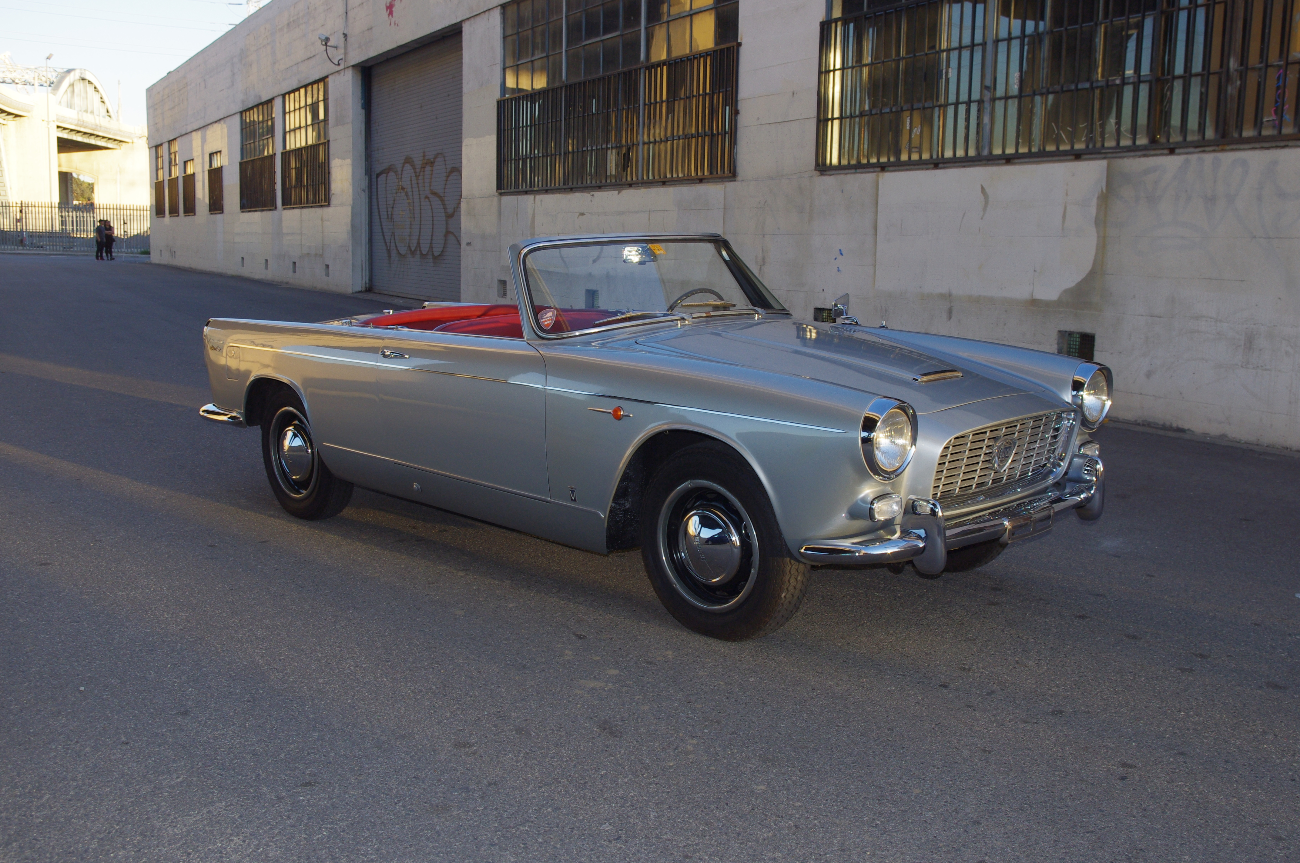 As seen near the edge of the LA River in the Arts District Los Angeles !